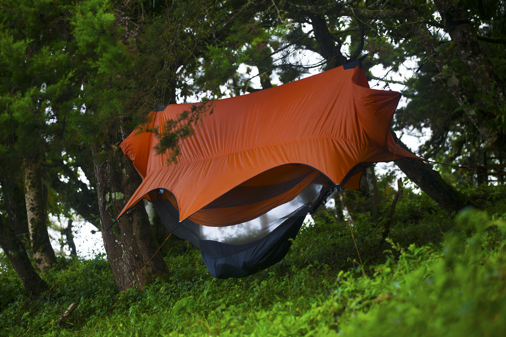 The Nubé Hammock Shelter and Pares Hammock by Sierra Madre Research is a complete, 360 degree hammock shelter more comparable to a tent than just a tarp alone. Some refer to it as a Tree Tent.